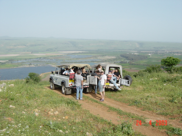 View of Ramot Naftali, Geography of Israel